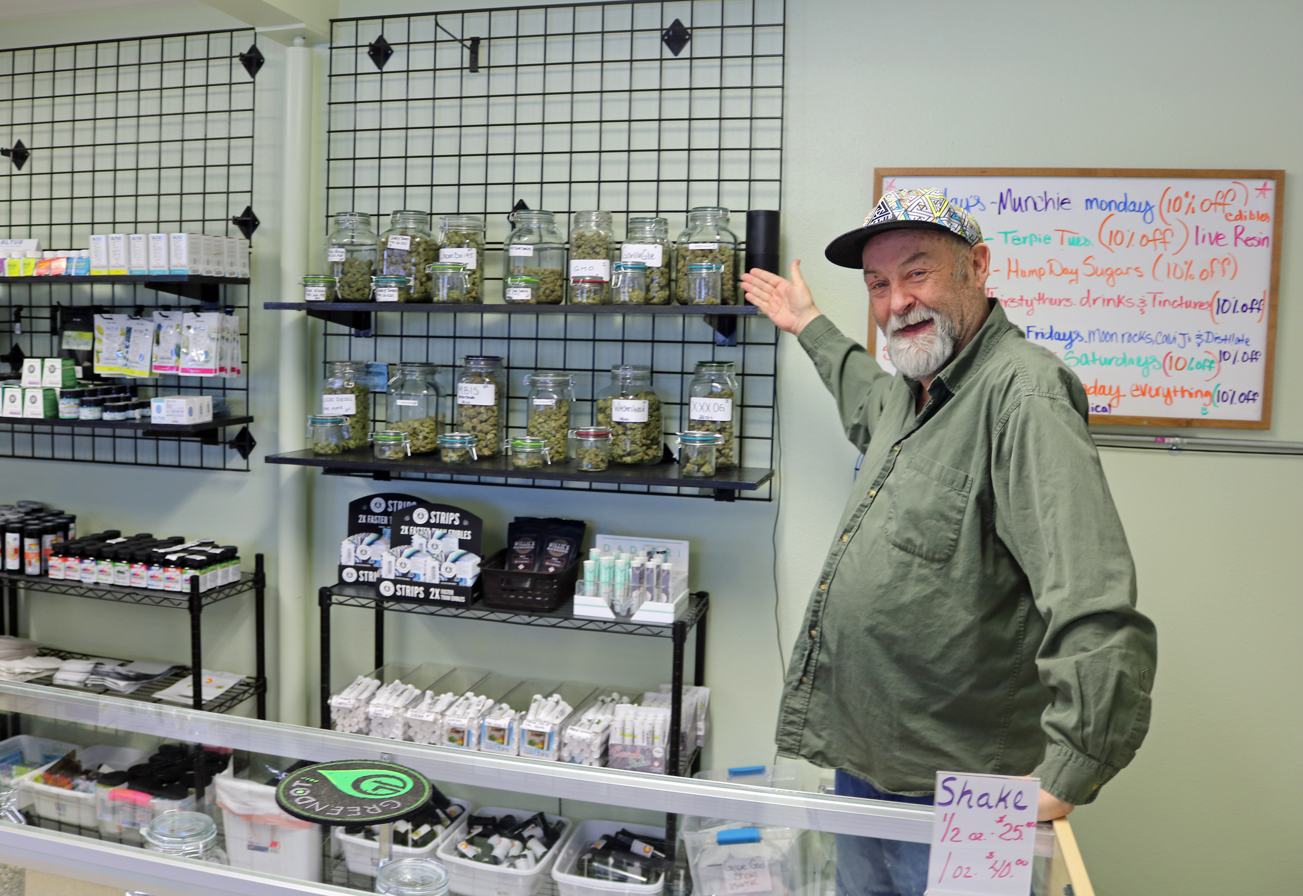 An employee of the MEDUSACO cannabis dispensary in Walsenburg, Colorado pointing to the dispensary's supply of flower product.